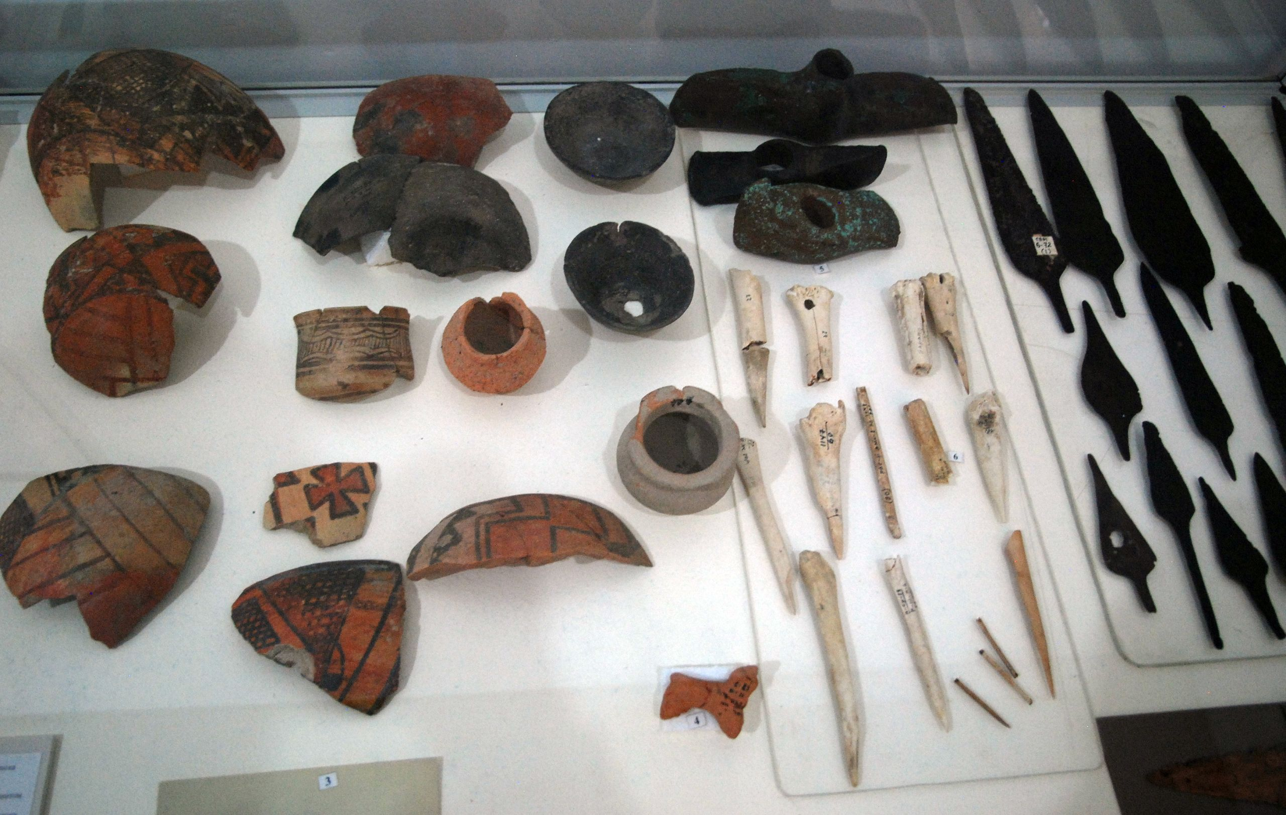 Sarazm, in: National Museum of Antiquities Dushanbe